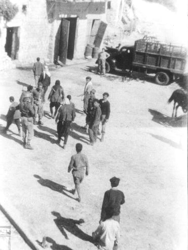 Ein al-Zeitun. Yiftach Brigade with prisoners. 1948